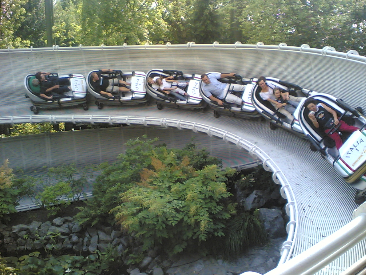 Schweizer Bobbahn, Europa-Park, Rust, Baden-Württemberg, Germany.